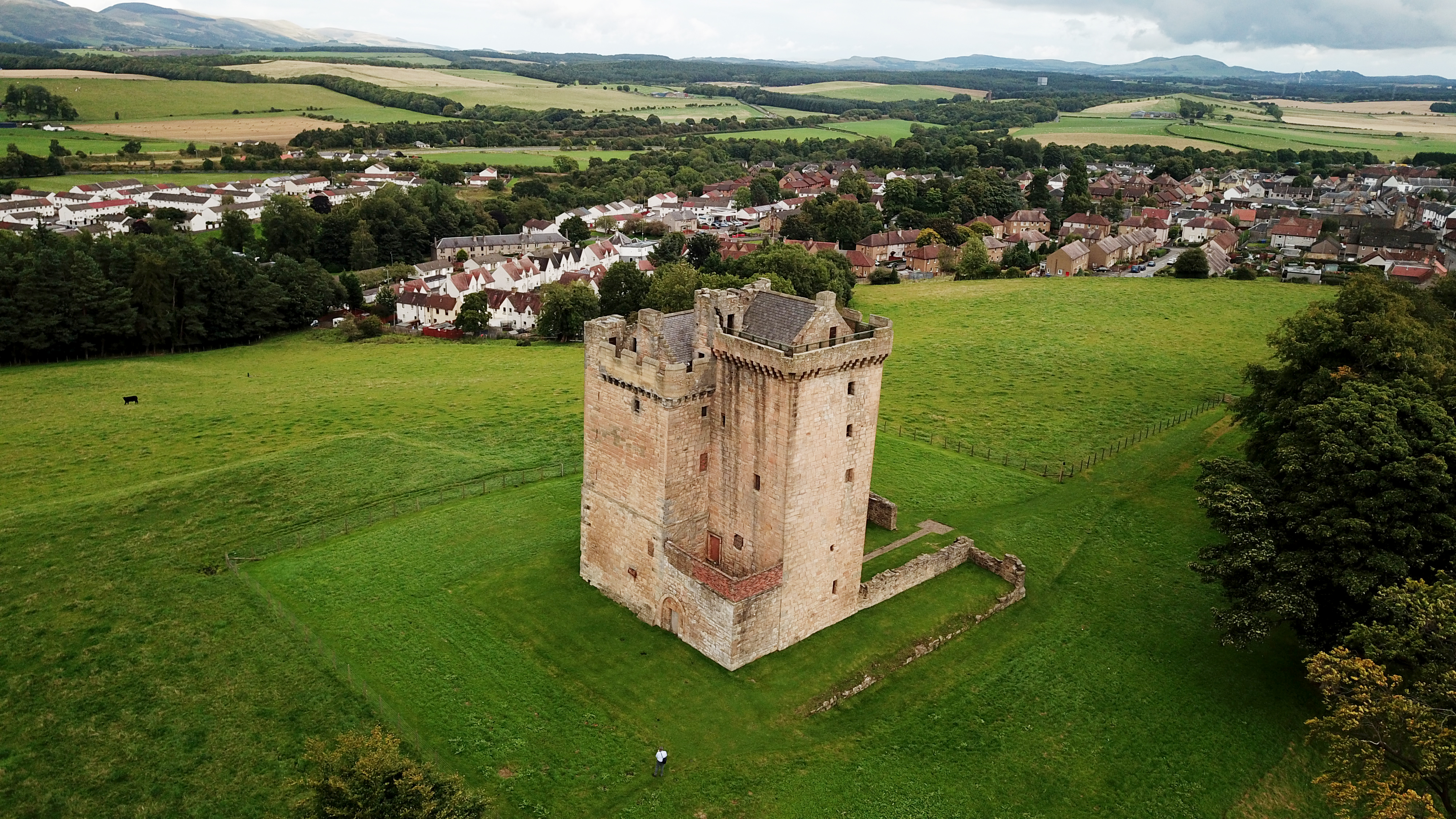 Clackmannan Tower Wikidata has entry Q2307948 with data related to this item.